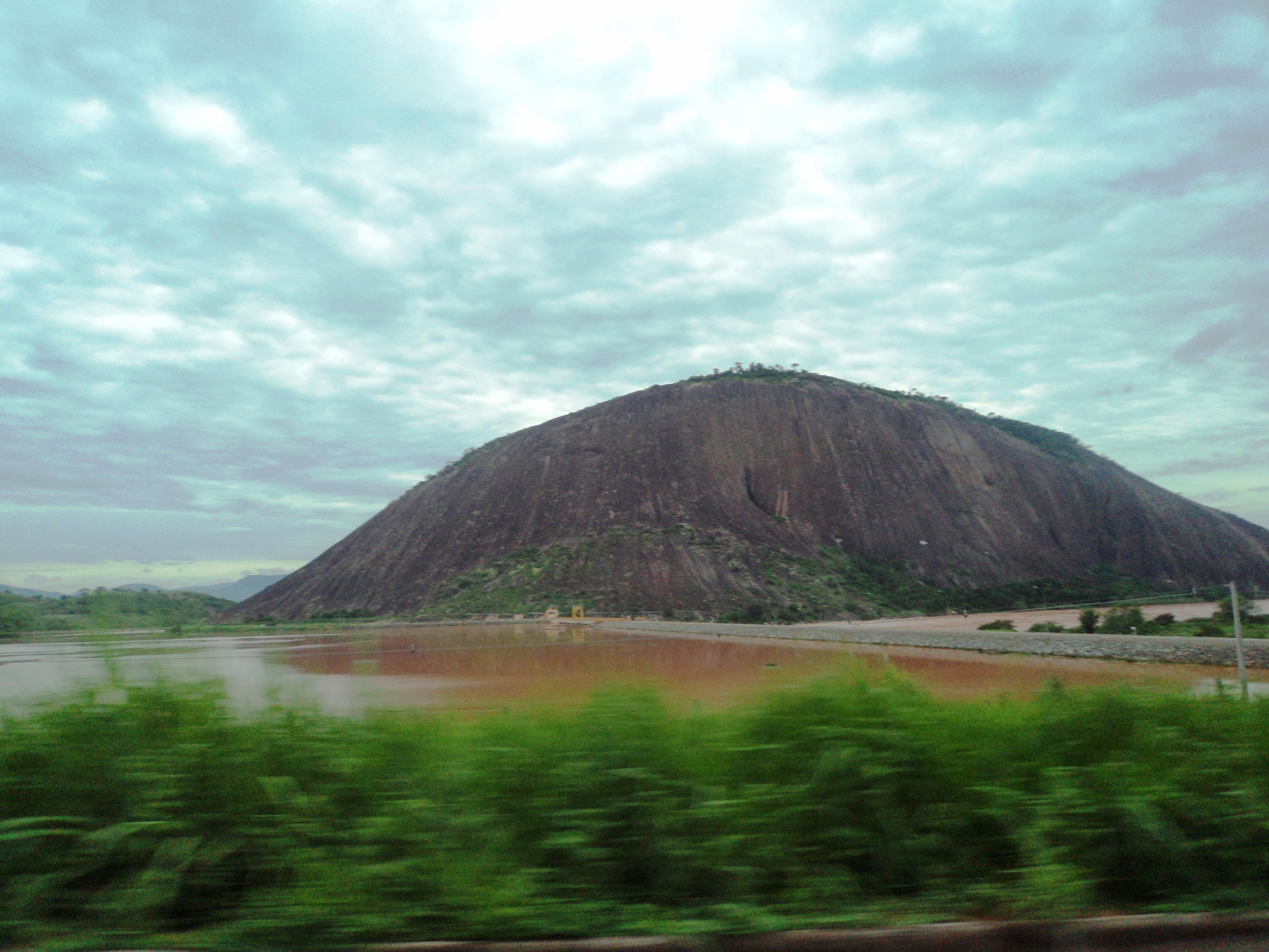 View of a barrage of the Aimorés Dam with the Lorena Stone in the background, in Aimorés, Minas Gerais, Brazil.